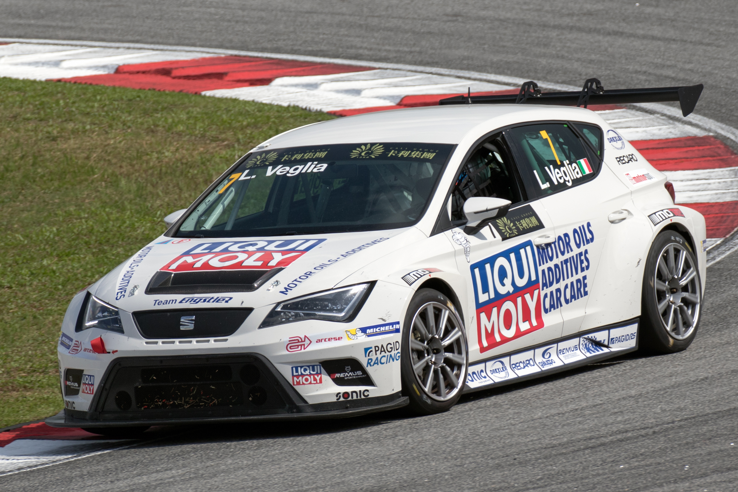 TCR International Series 2015 Rd.1 Malaysia: Lorenzo Veglia (Zengő Motorsport)